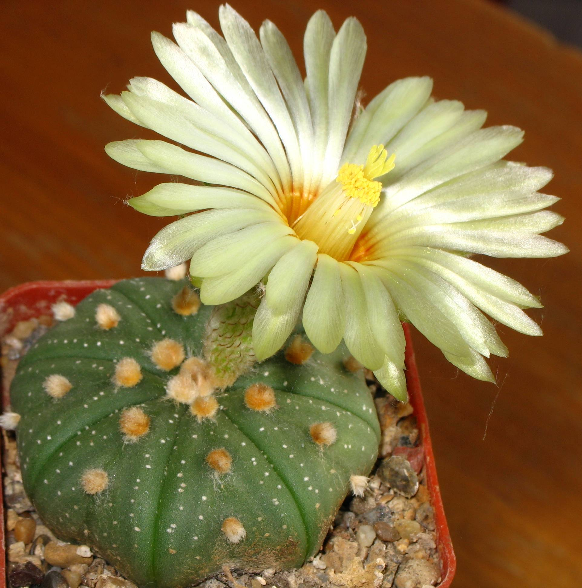 Astrophytum asteris, with flower.